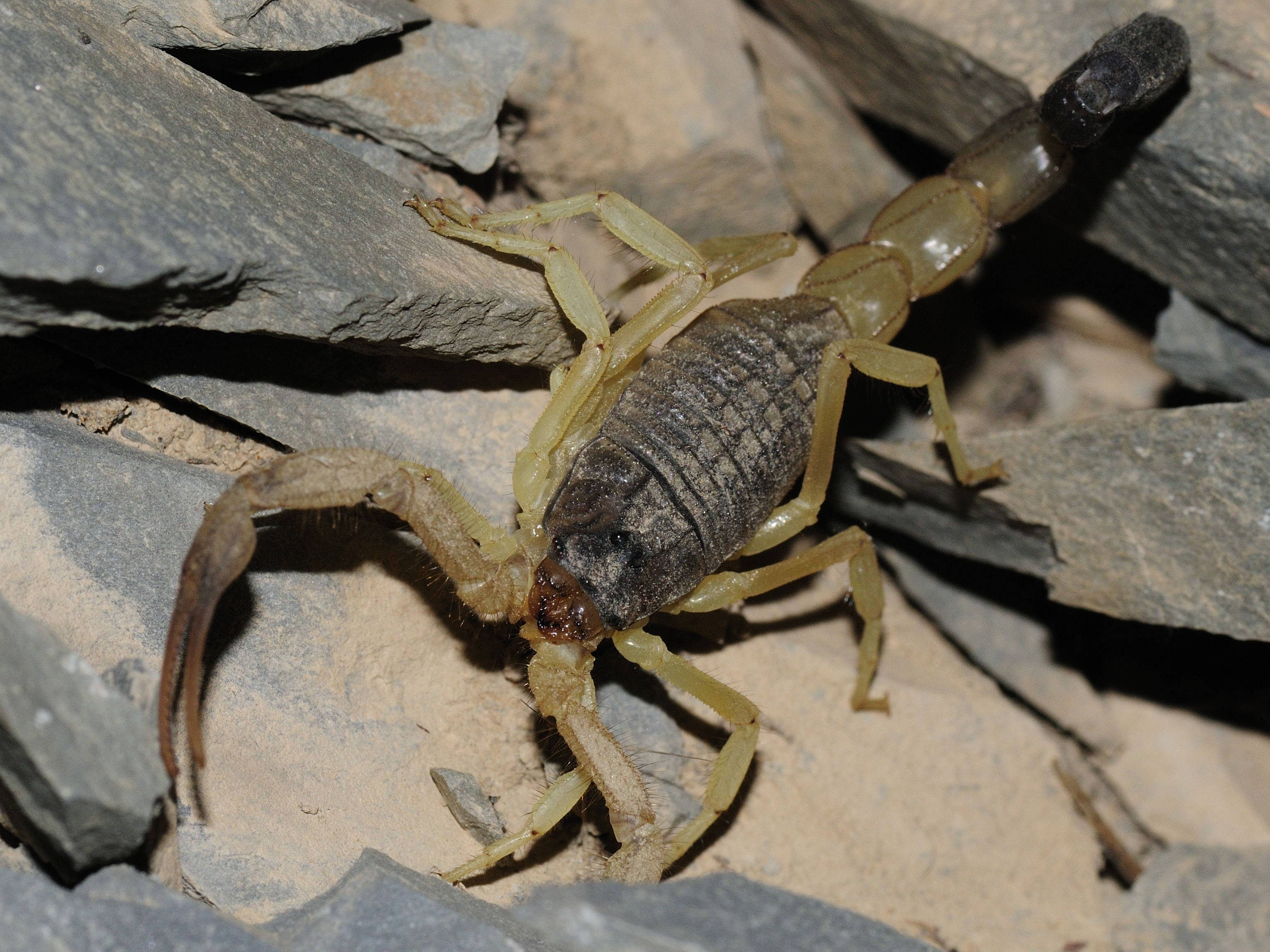 Determination by Benutzer:Accipiter